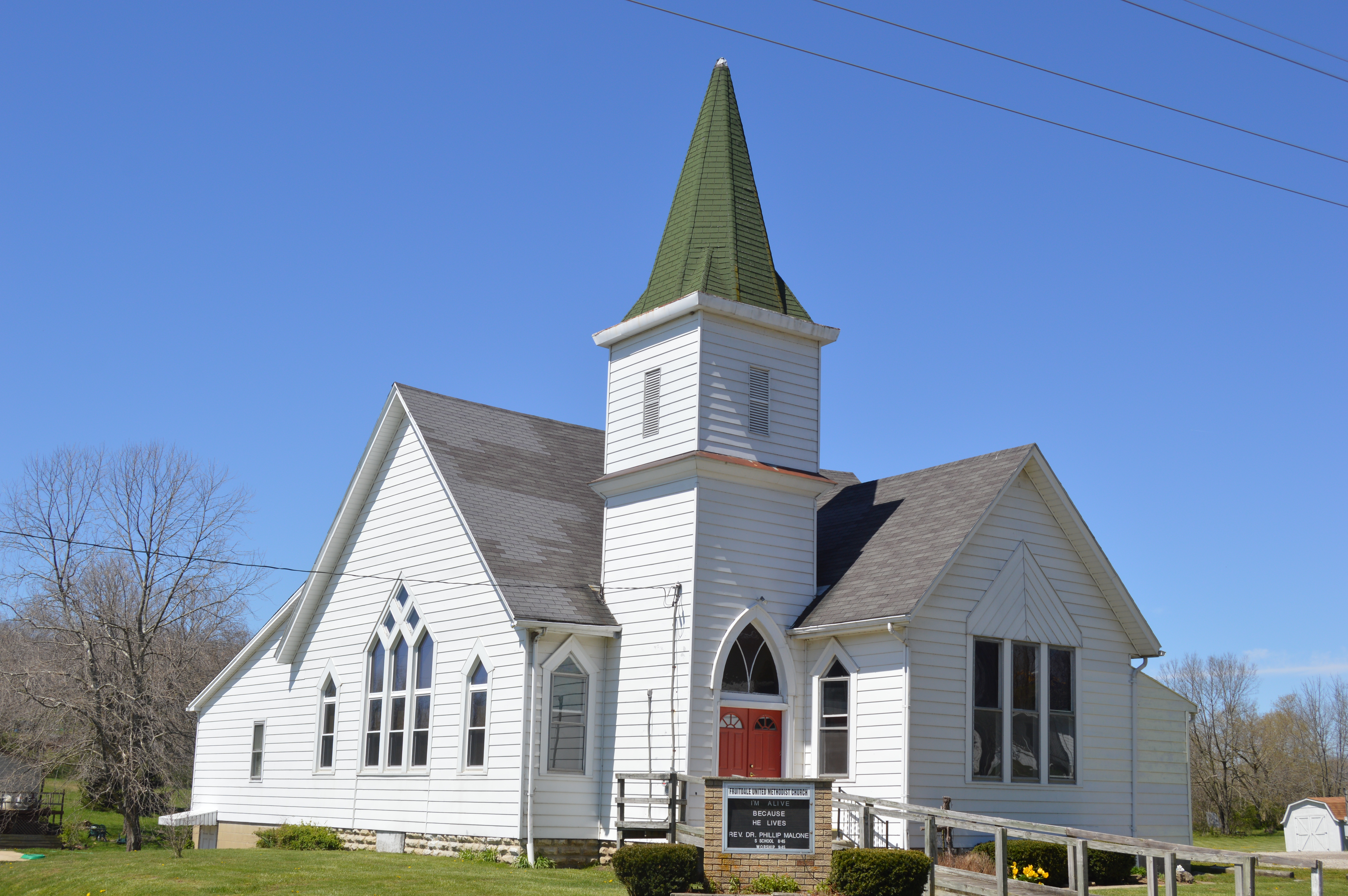 Front and southern side of the Fruitdale United Methodist Church, located at the junction of State Route 41 and Moxley Road in Paint Township, Ross County, Ohio, United States.